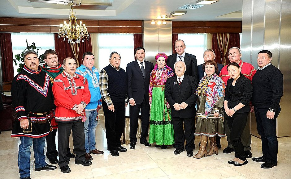 Magomedsalam Magomedov and Dmitry Kobylkin meet with members of Russian Association of Indigenous Peoples of the North (RAIPON)